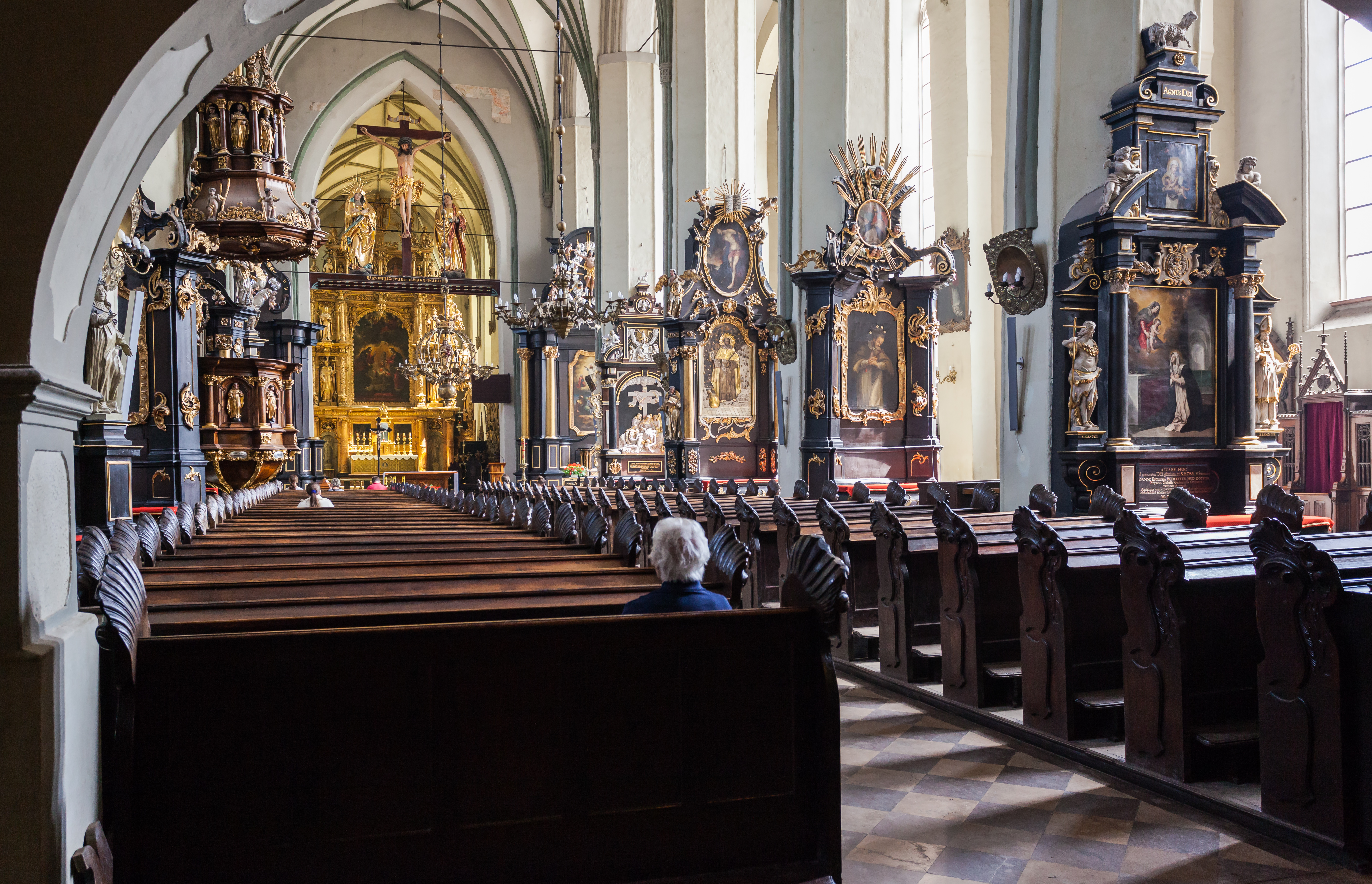 St. Nicholas church, Gdansk, Poland